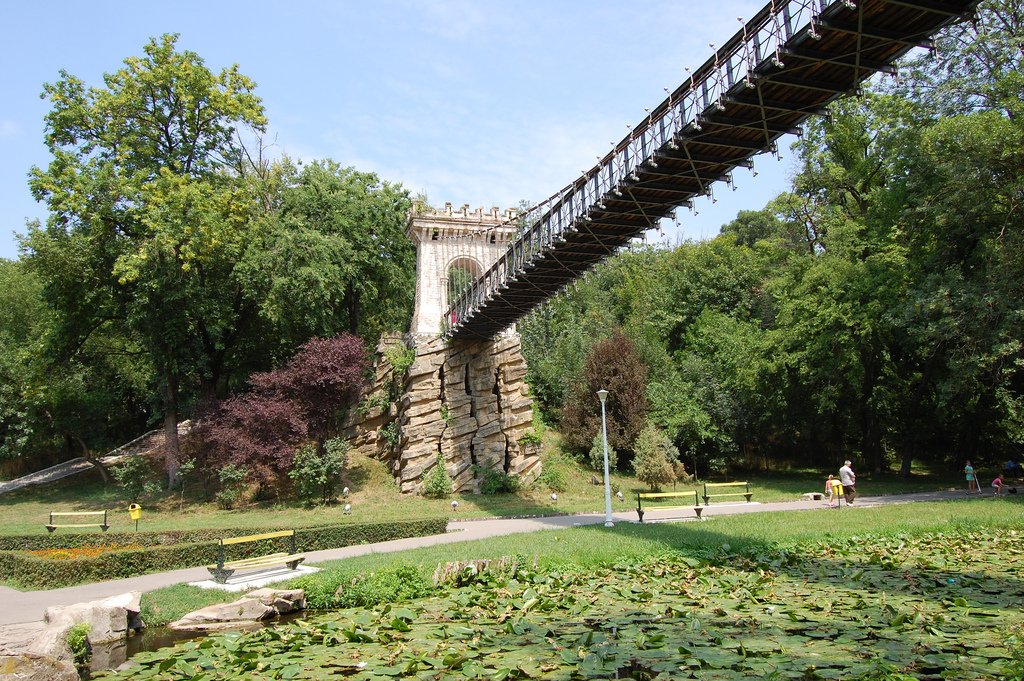 Flying Bridge in Nicolae Romanescu Park, Craiova